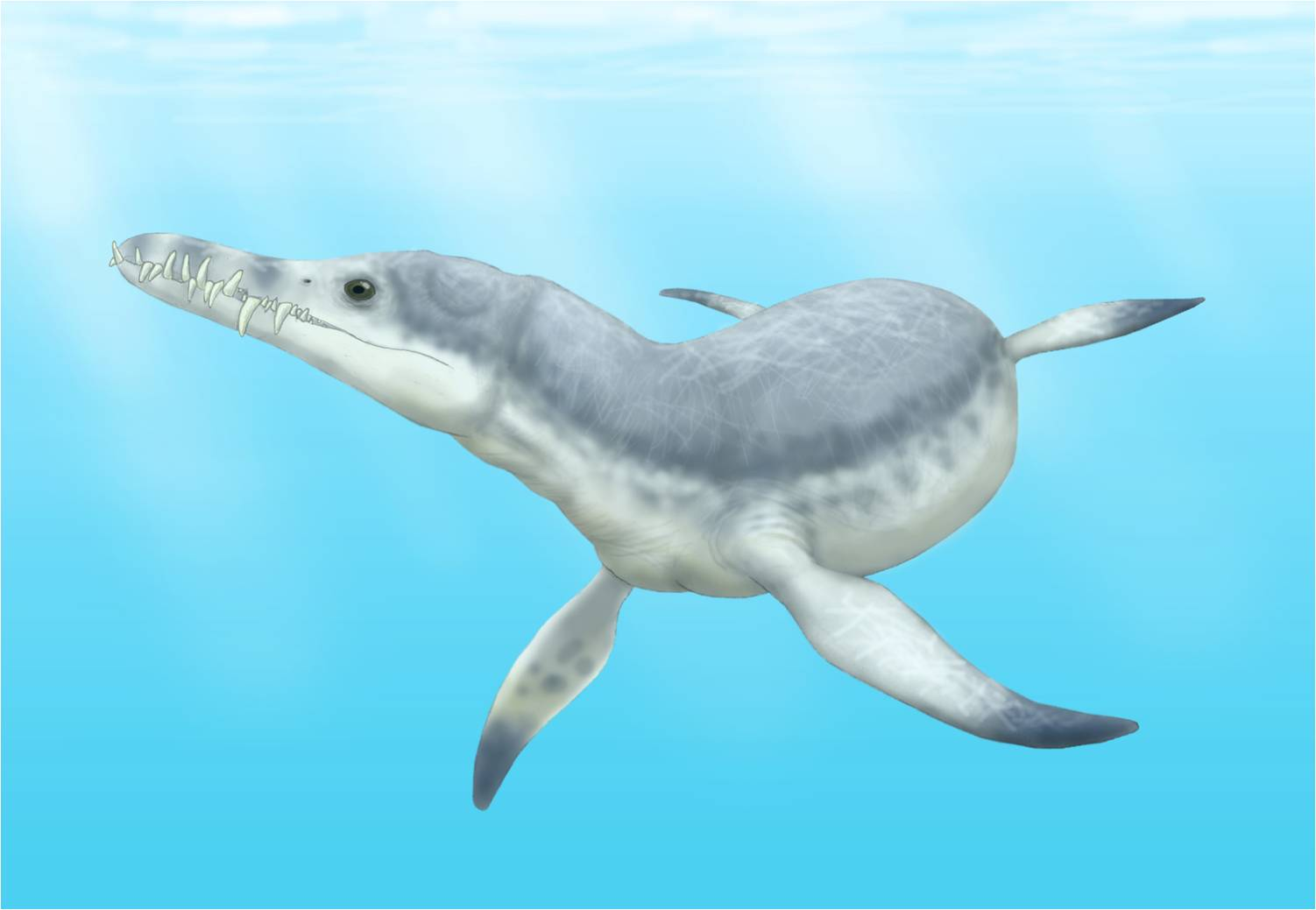 Life restoration of Edgarosaurus muddi. Based on figures 7 and 16 of "Osteology of a new plesiosaur from the Lower Cretaceous (Albian) Thermopolis Shale of Montana." by P. S. Druckenmiller Journal of Vertebrate Paleontology 22(1):29-42